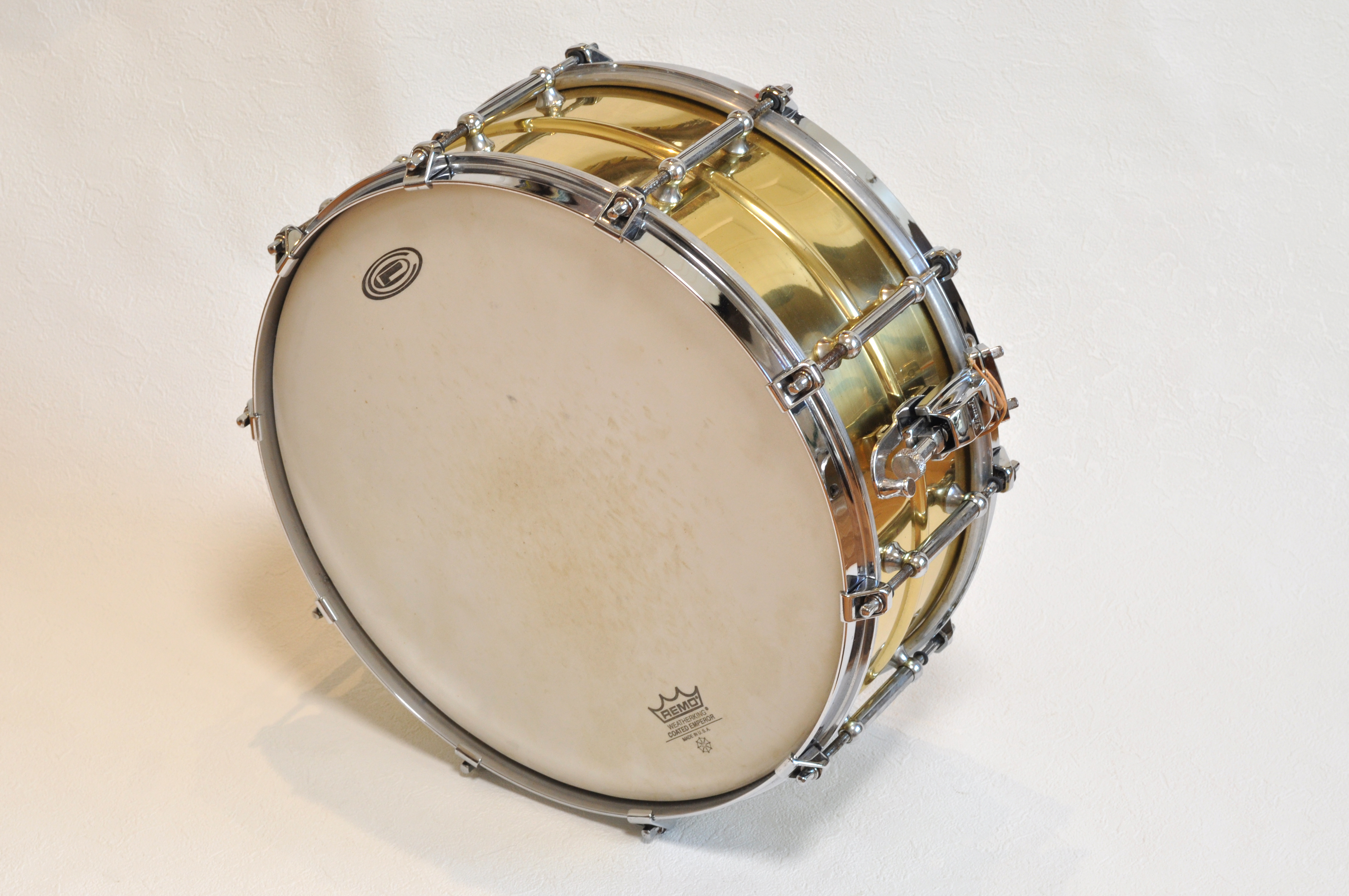 Pearl sencitone classic 2 Brass shell 14*5